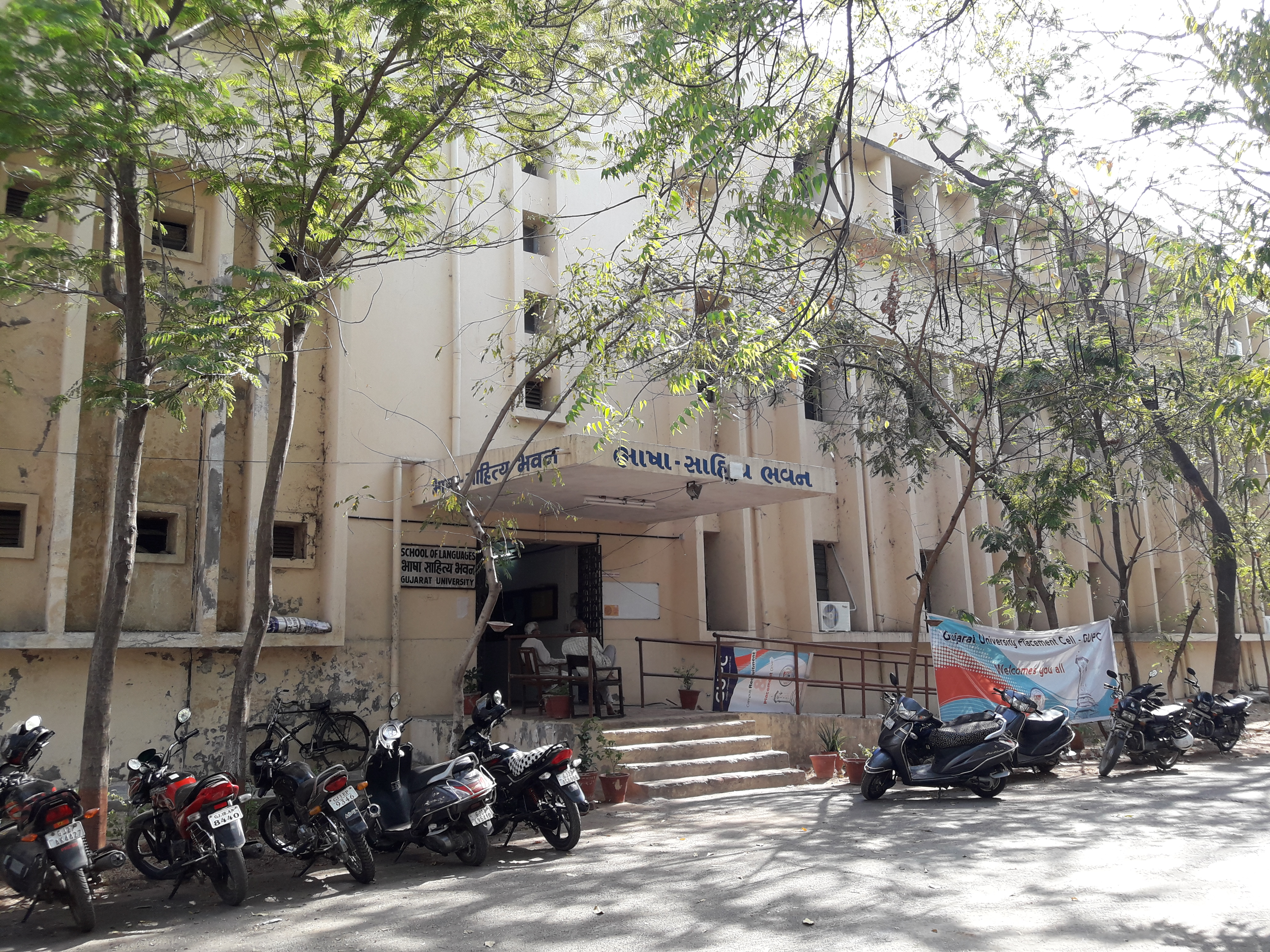 The School of Languages located at Gujarat University campus in Ahmedabad, Gujarat, India.